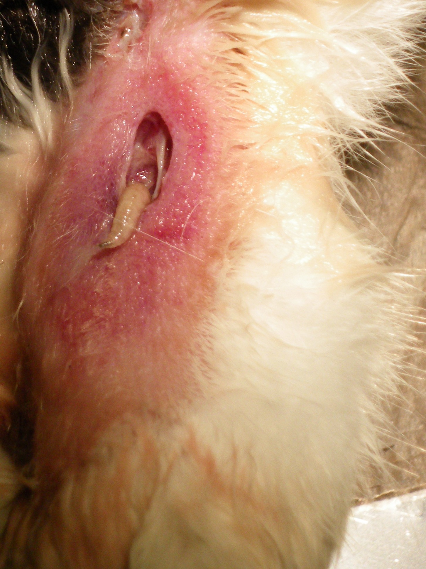 Myasis in a flesh wound on a cat leg